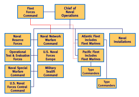 Organization of the Operating Forces of the United States Navy